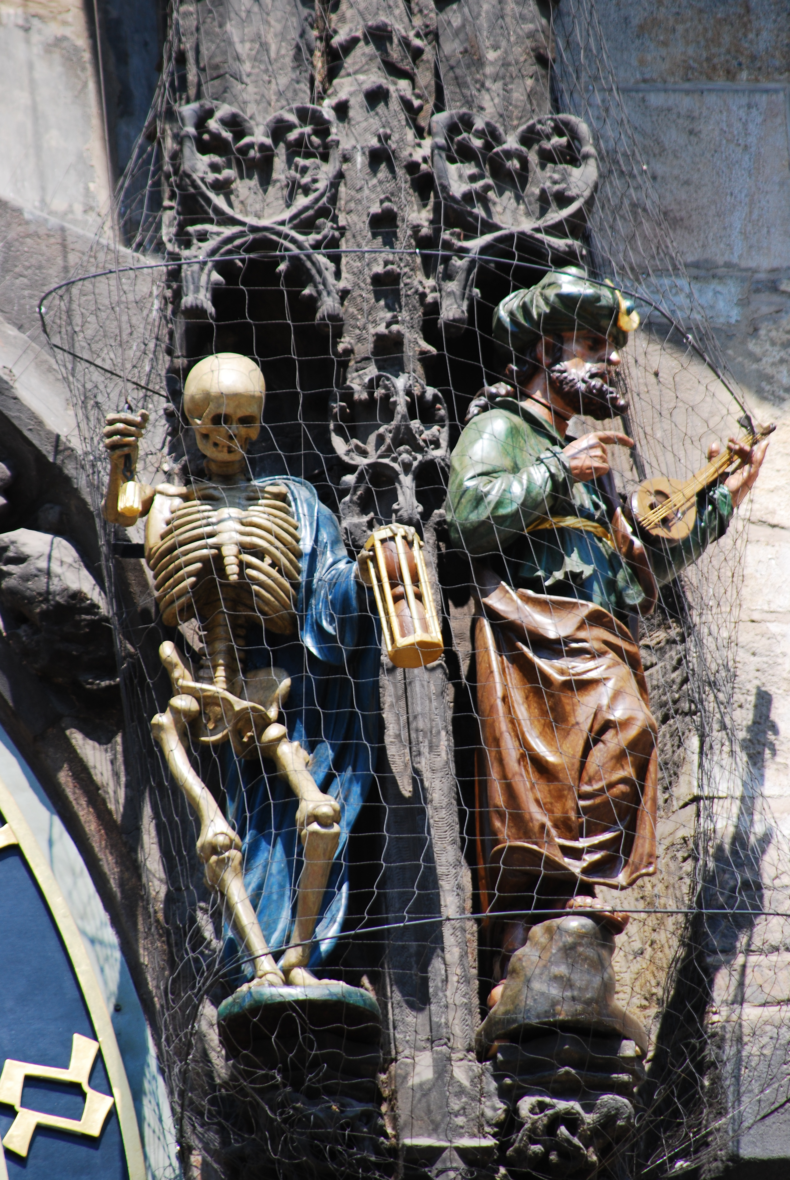 The Prague Astronomical Clock or Prague Orloj (Czech: Pražský orloj, [praʒski: ɔrlɔi]) is a medieval astronomical clock located in Prague, the capital of the Czech Republic. The Orloj is mounted on the southern wall of Old Town City Hall in the Old Town Square and is a popular tourist attraction. The Orloj is composed of three main components: the astronomical dial, representing the position of the Sun and Moon in the sky and displaying various astronomical details; "The Walk of the Apostles", a clockwork hourly show of figures of the Apostles and other moving sculptures; and a calendar dial with medallions representing the months. Click below for a full demonstration of how the orlo works